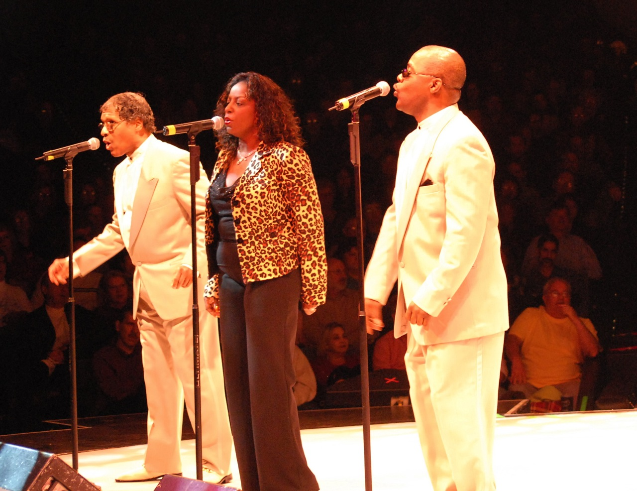 Five Satins - Richie Freeman, Nadina Perry, Eugene Dobbs